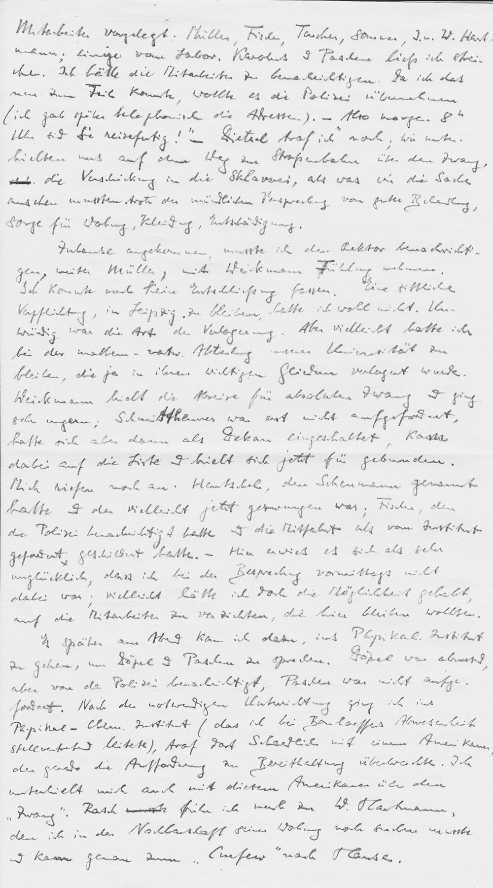 Page 2 of a manuscript by Friedrich Hund, 25 June 1945 at Leipzig (departure of the Americans).